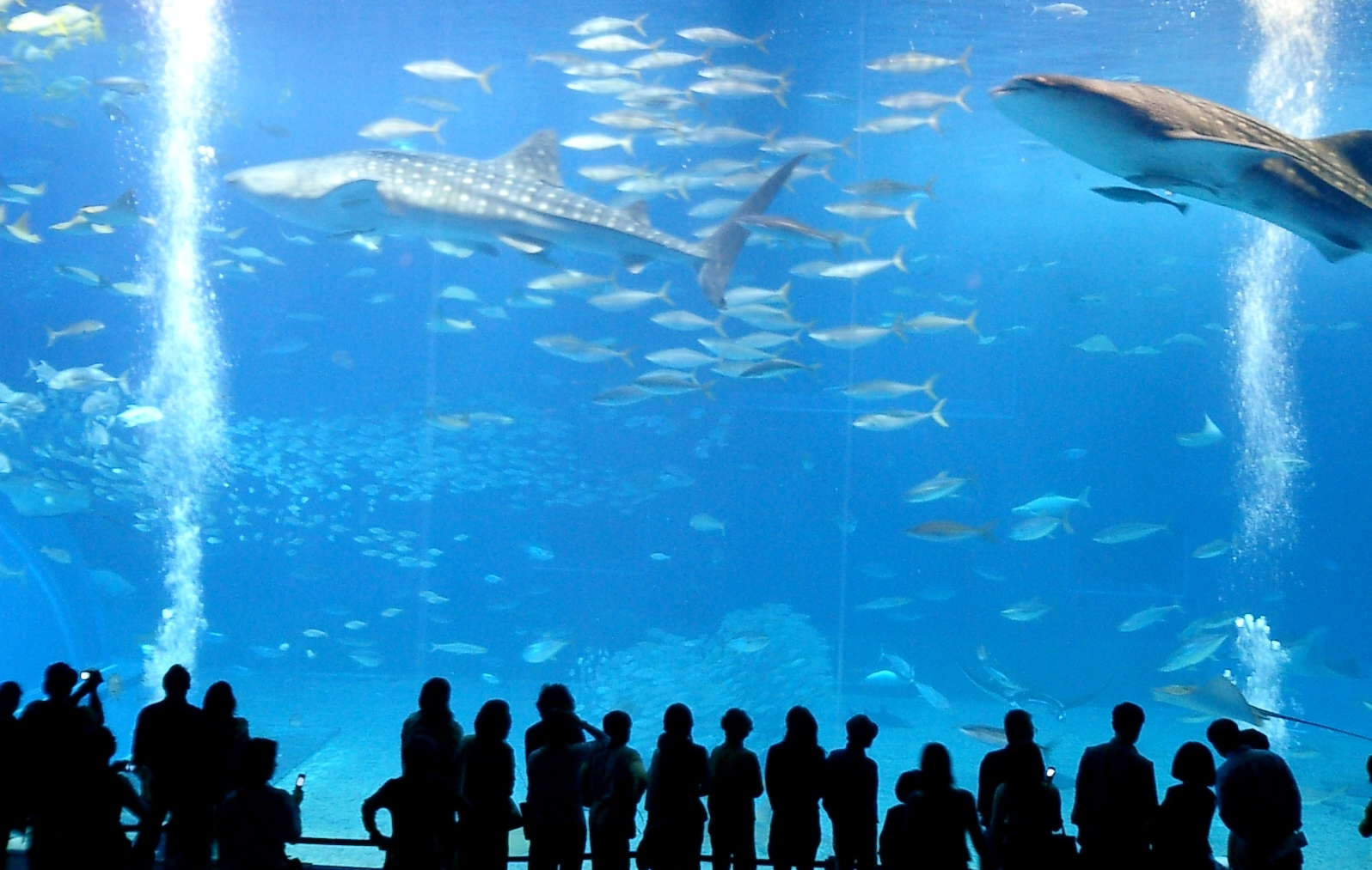 Two Whale Sharks in the Okinawa Churaumi Aquarium Location: 424 Ishikawa, Motobu-cho, Kunigami-gun, Okinawa Japan 905-0206